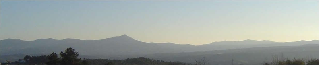 Santa Comba Mountain